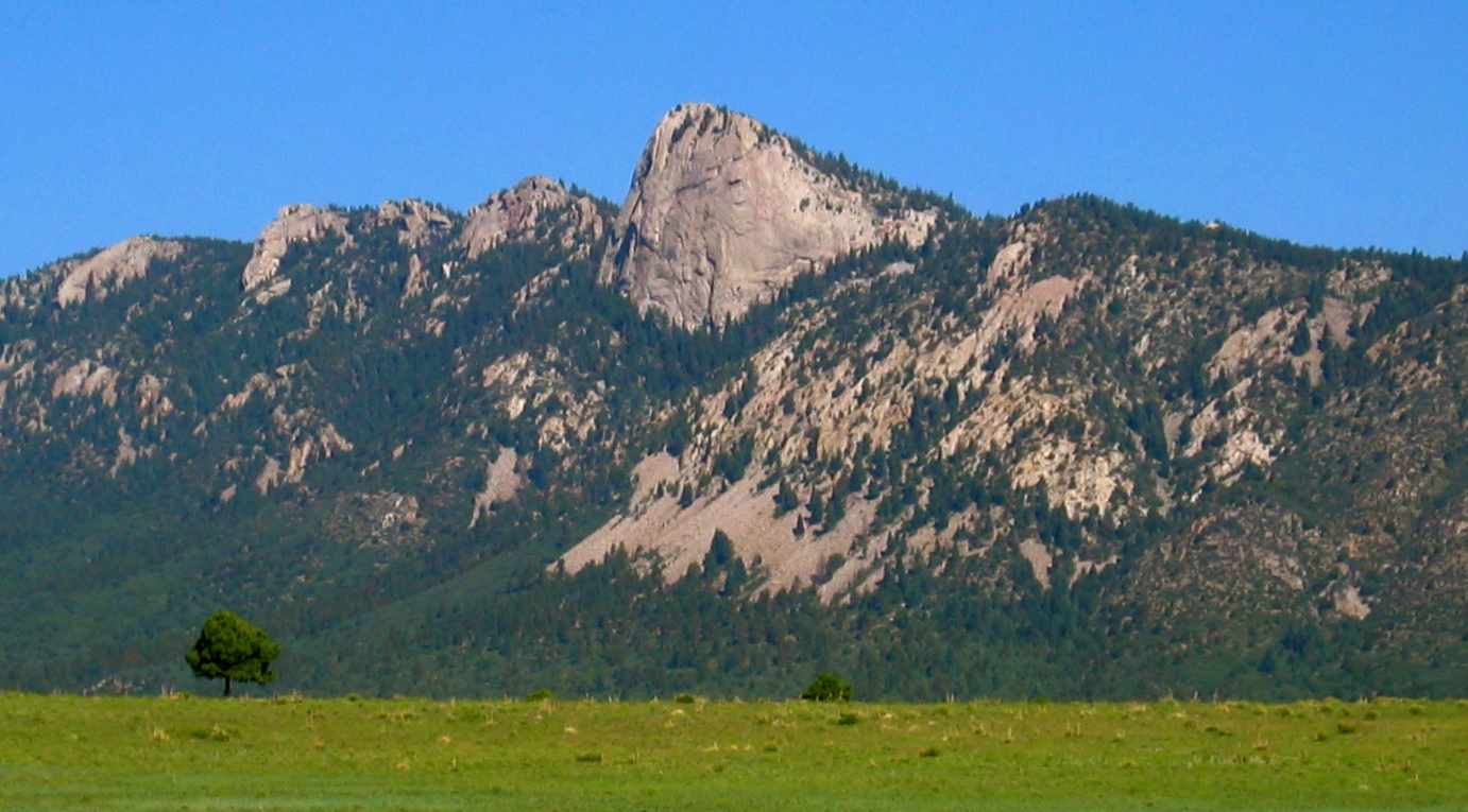 Taken June 16 2004 near Philmont Scout Ranch, New Mexico. Pictured is a notable rock formation, the "Tooth of Time".